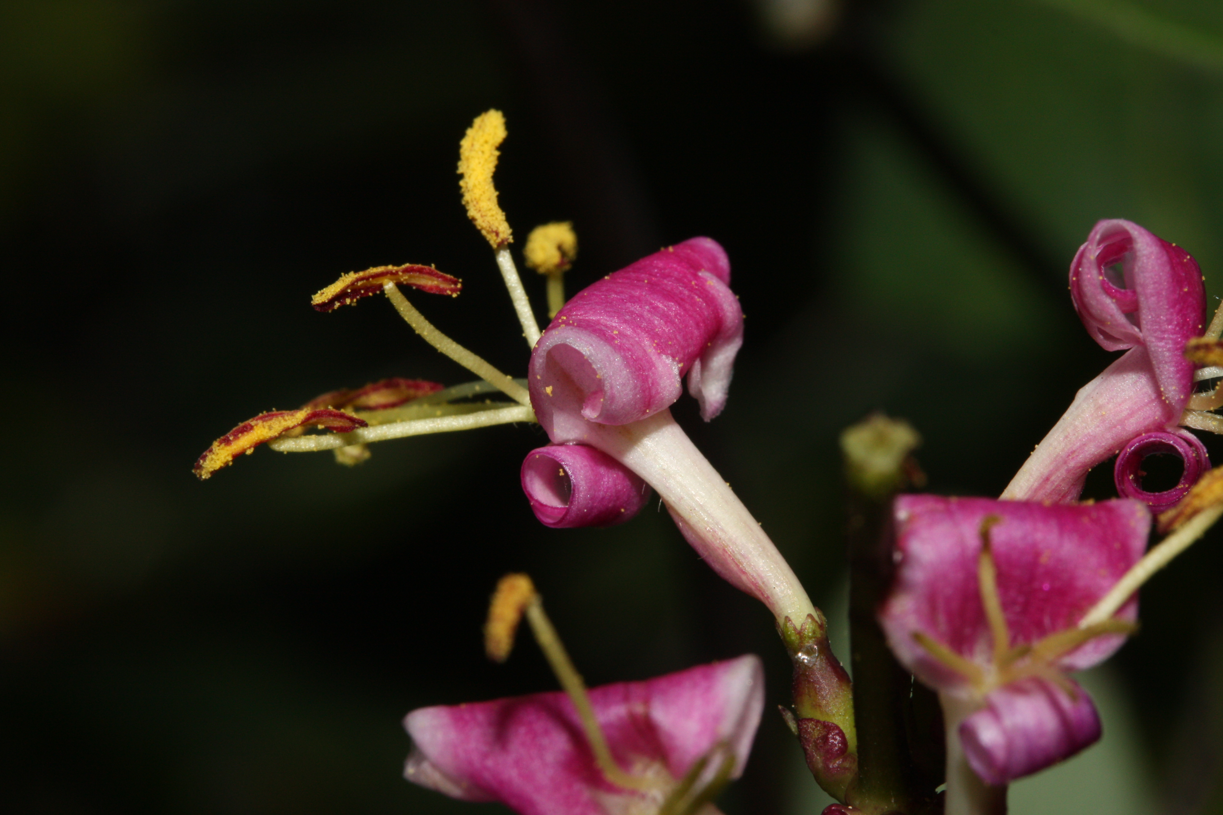 Pink Honeysuckle